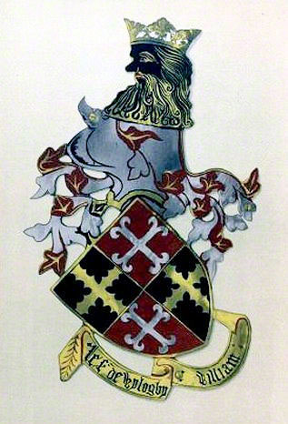 Garter Stall Plate of William Willoughby, 5th Baron Willoughby de Eresby (1370–1409), KG, St George's Chapel, Windsor. "Sir William Willoughby, Lord Willoughby d’Eresby…the arms, which are quarterly: 1 and 4, sable a cross engrailed gold (for Ufford); 2 and 3, gules a mill-iron or miller’s cross silver (for Willoughby)" (Quoted from Hope)